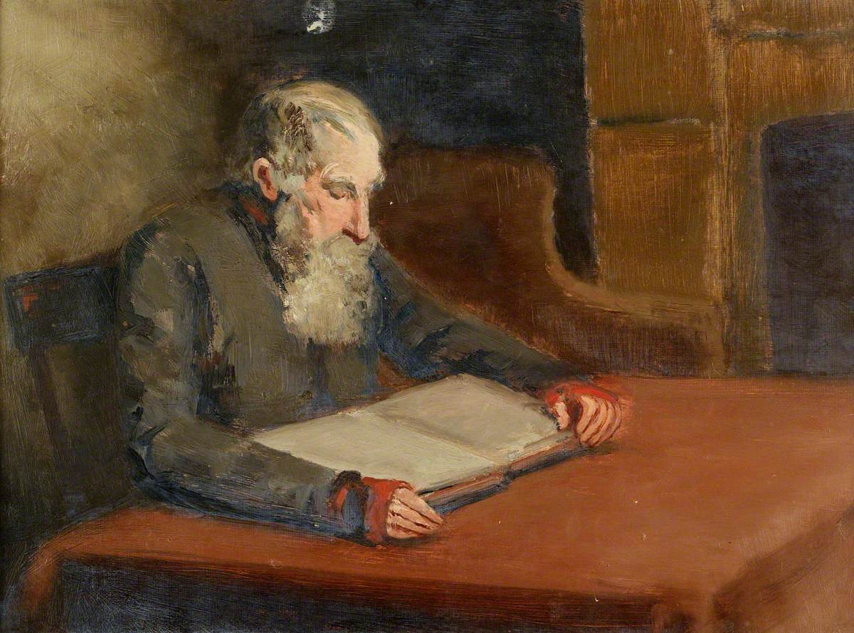 A painting from the Framed Works of Art collection at the National Library of wales.